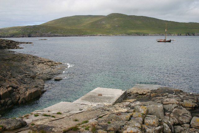 Barra Head's Jetty with Mingulay, Outer Hebrides, Scotland